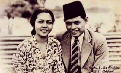 Promotional image for the film Sitti Akbari, showing Roekiah and Rd Mochtar.